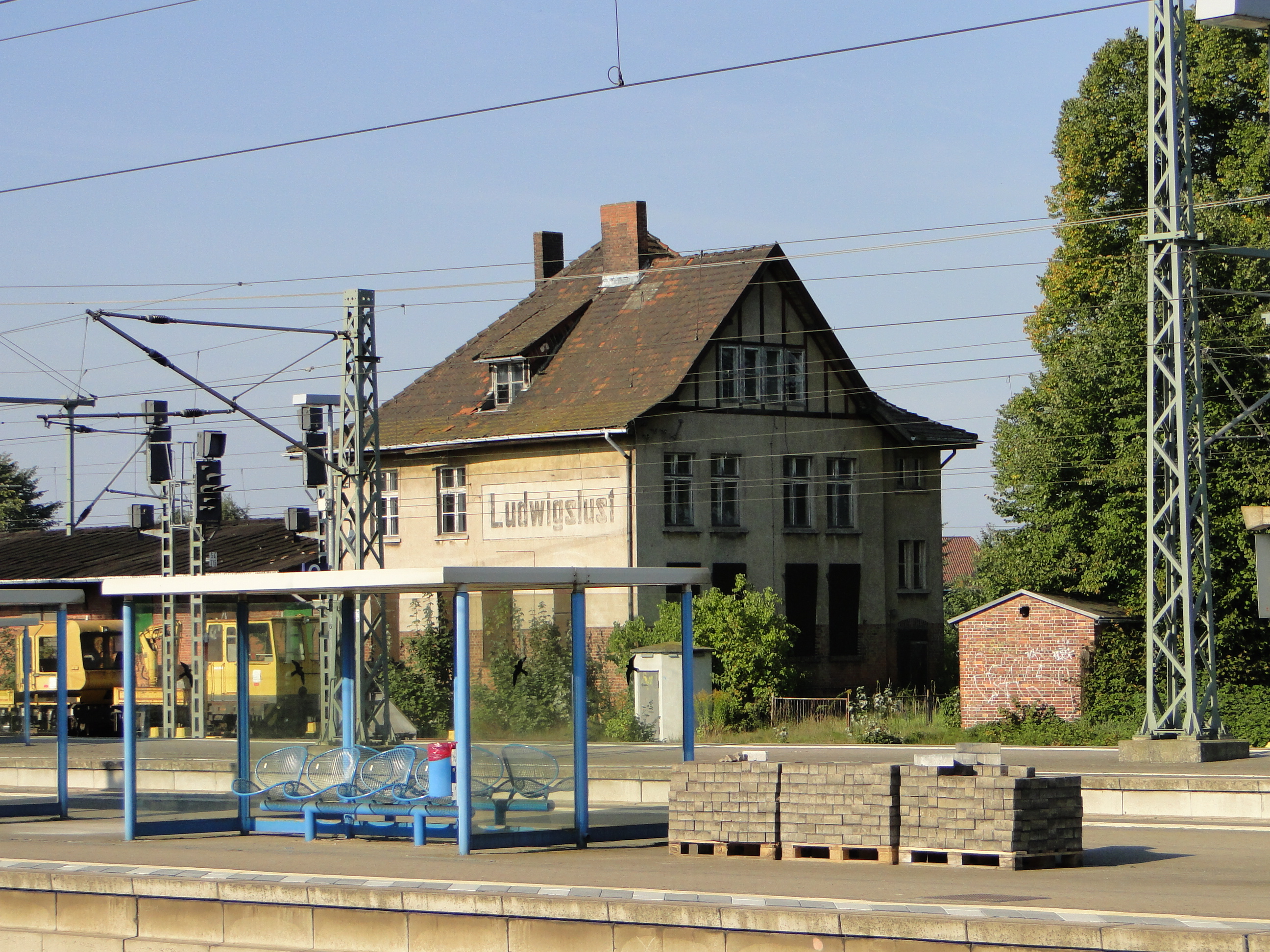 Train station in Ludwigslust, district Ludwigslust-Parchim, Mecklenburg-Vorpommern, Germany